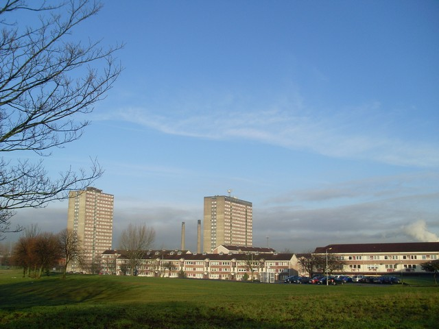 Highrise flats in Prospecthill Viewed from Prospecthill Road. This housing scheme was the location for a Sony Bravia television advert - in which several paint cans exploded to Gioachino Rossini's The Thieving Magpie - although the exact buildings used for the advert have since been demolished.